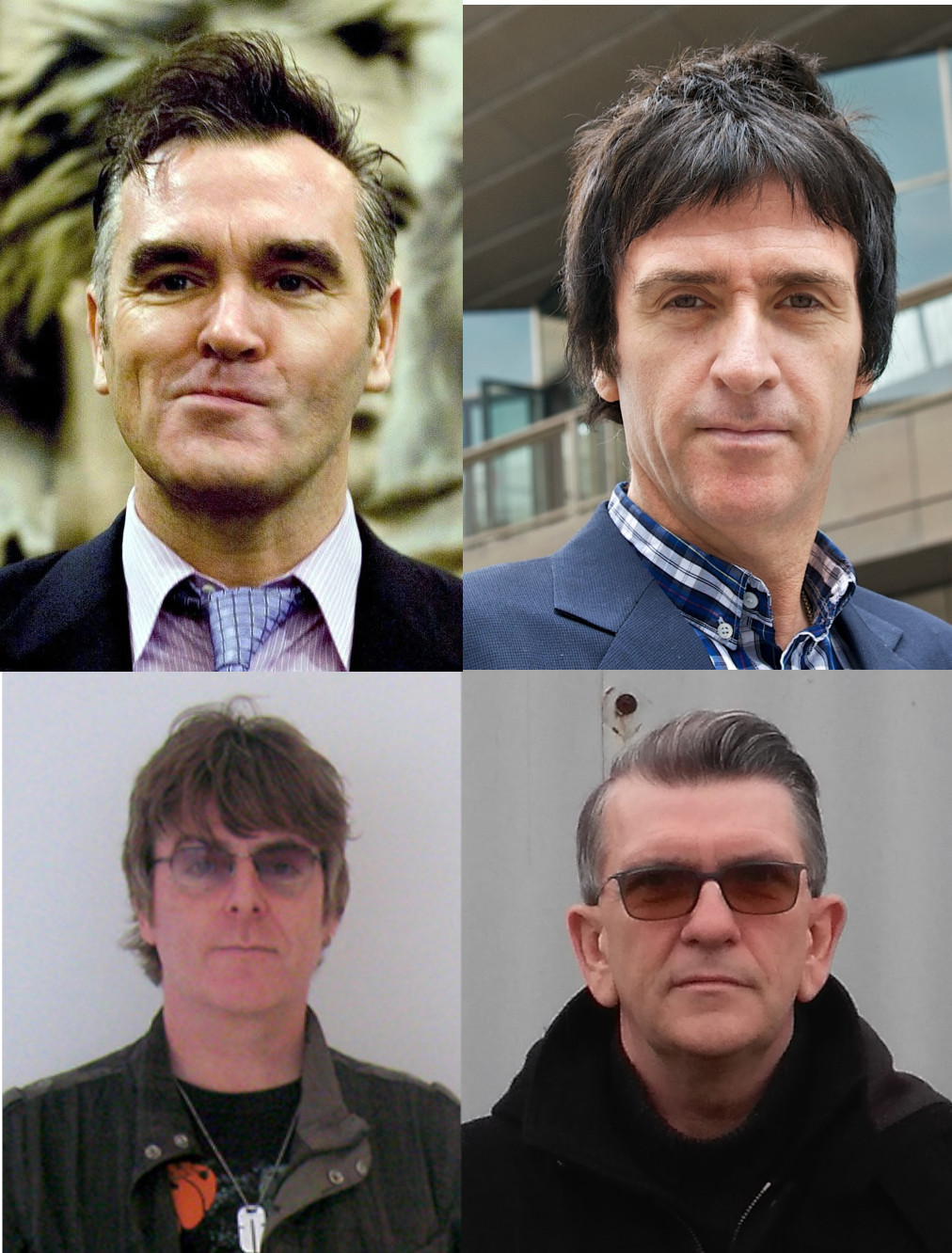 Members of The Smiths rock band.